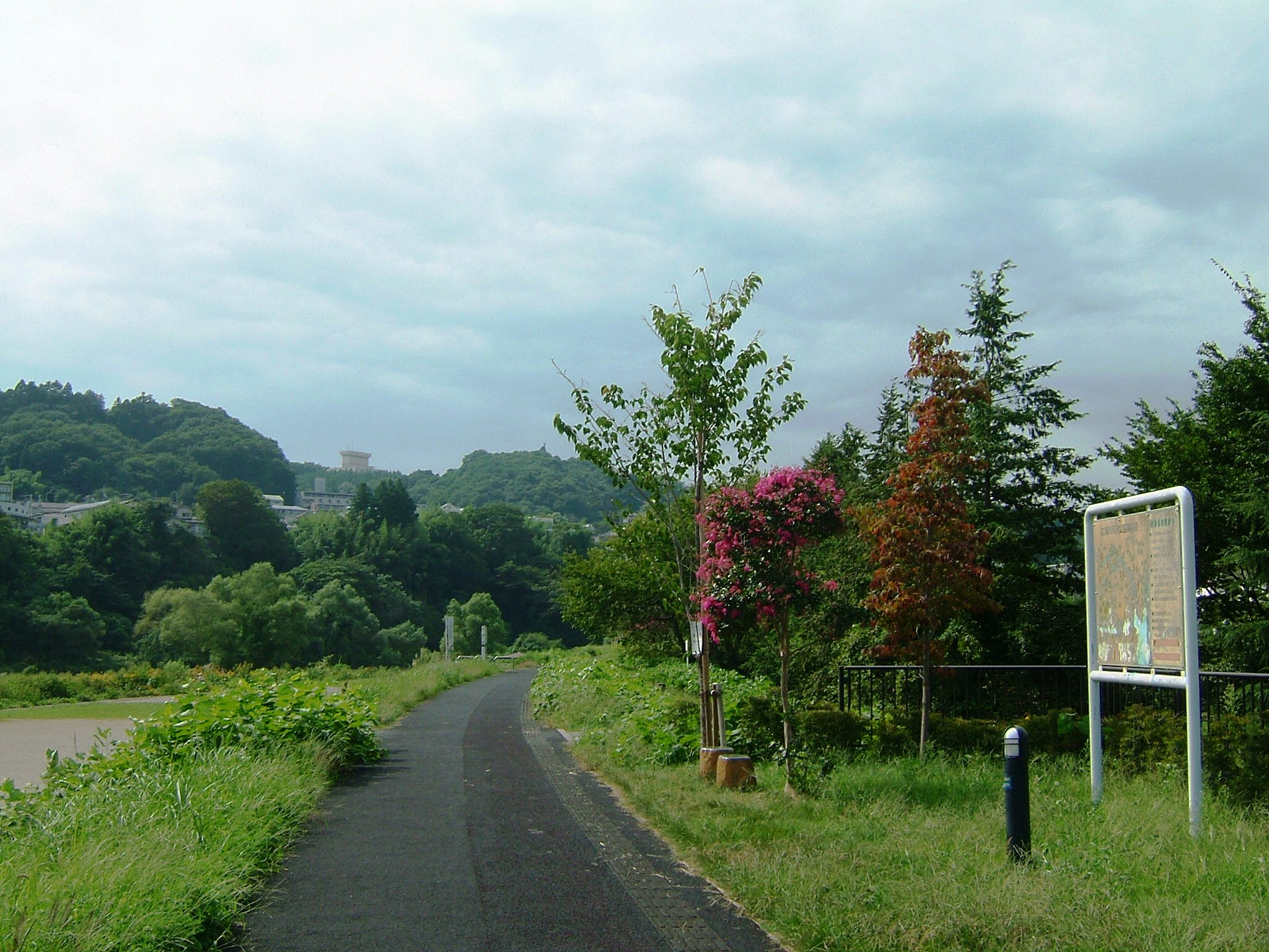 Sendai Hirose river river Shi stroll road. Sendai, Miyagi prefecture, Japan.